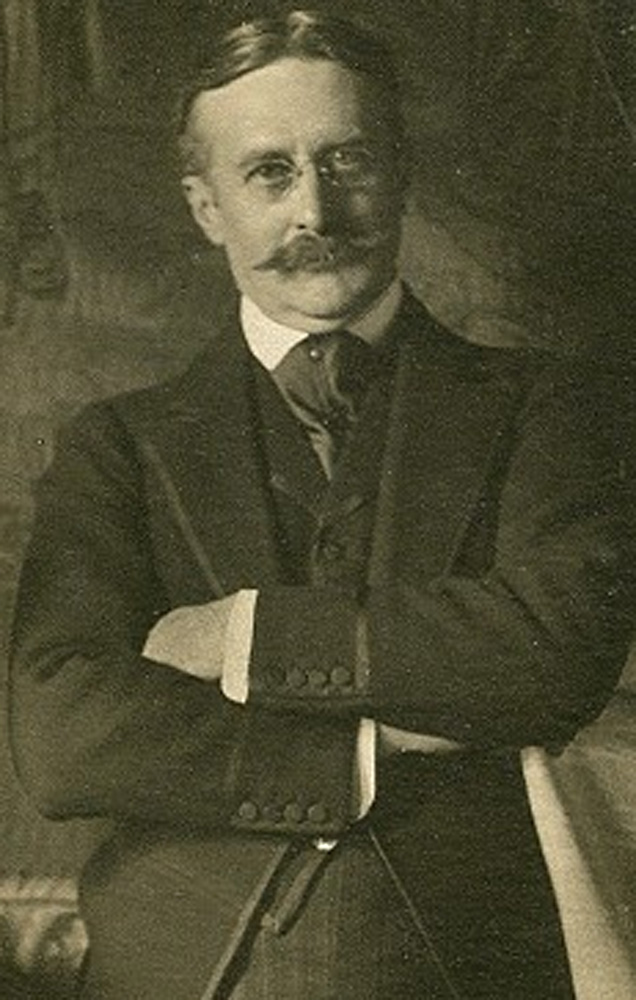 Harry Gordon Selfridge circa 1910. Rented Highcliffe Castle from 1916 to 1922